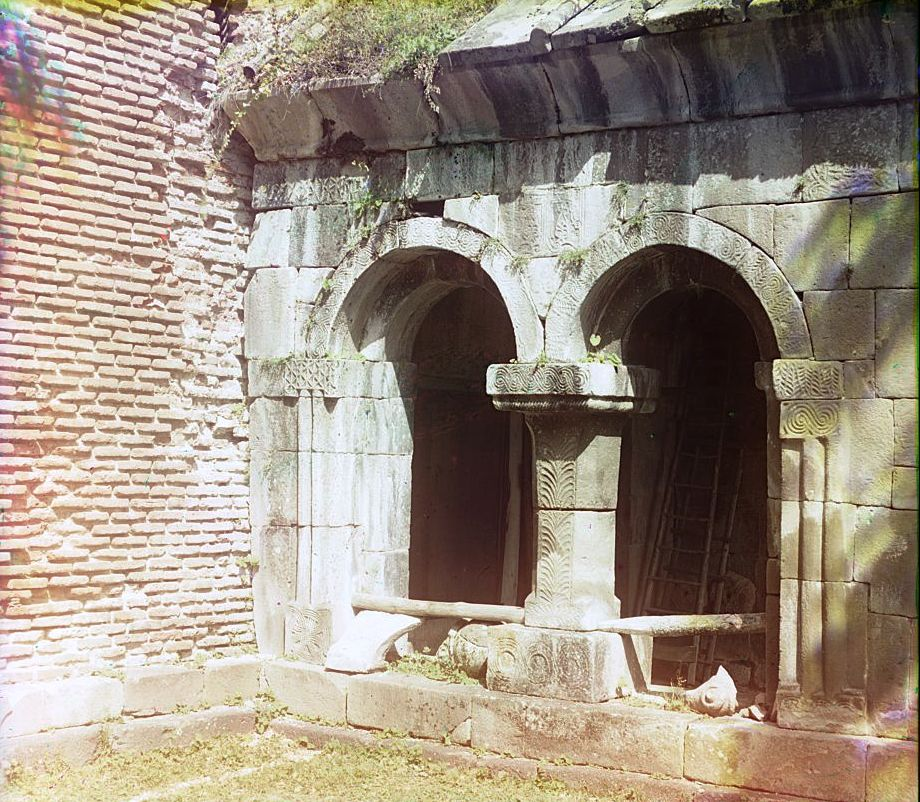 Timotesubani church in Georgia, 13th century. (Inside the ruins of Timotis-Ubanskii Monastery)